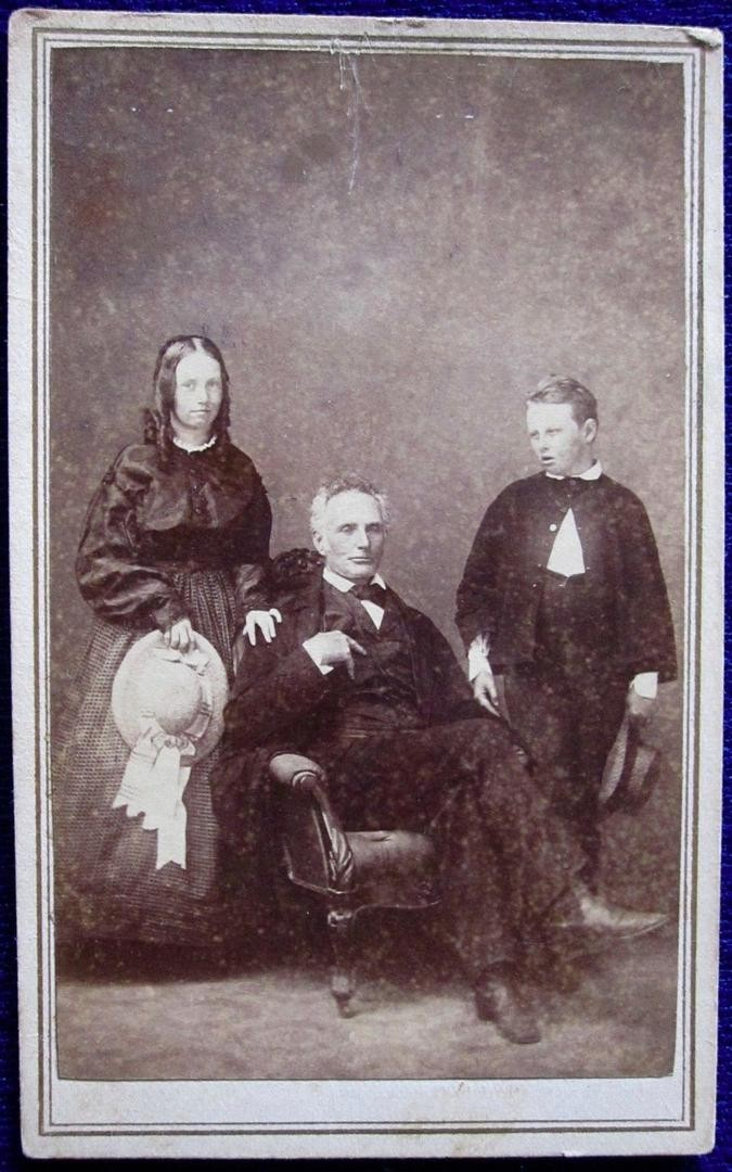 John Davis Paris and his children Ellen, also known as Ella ( 1852–1938) and son John Davis, Jr. (1854–1918). Photograph by Henry L. Chase.